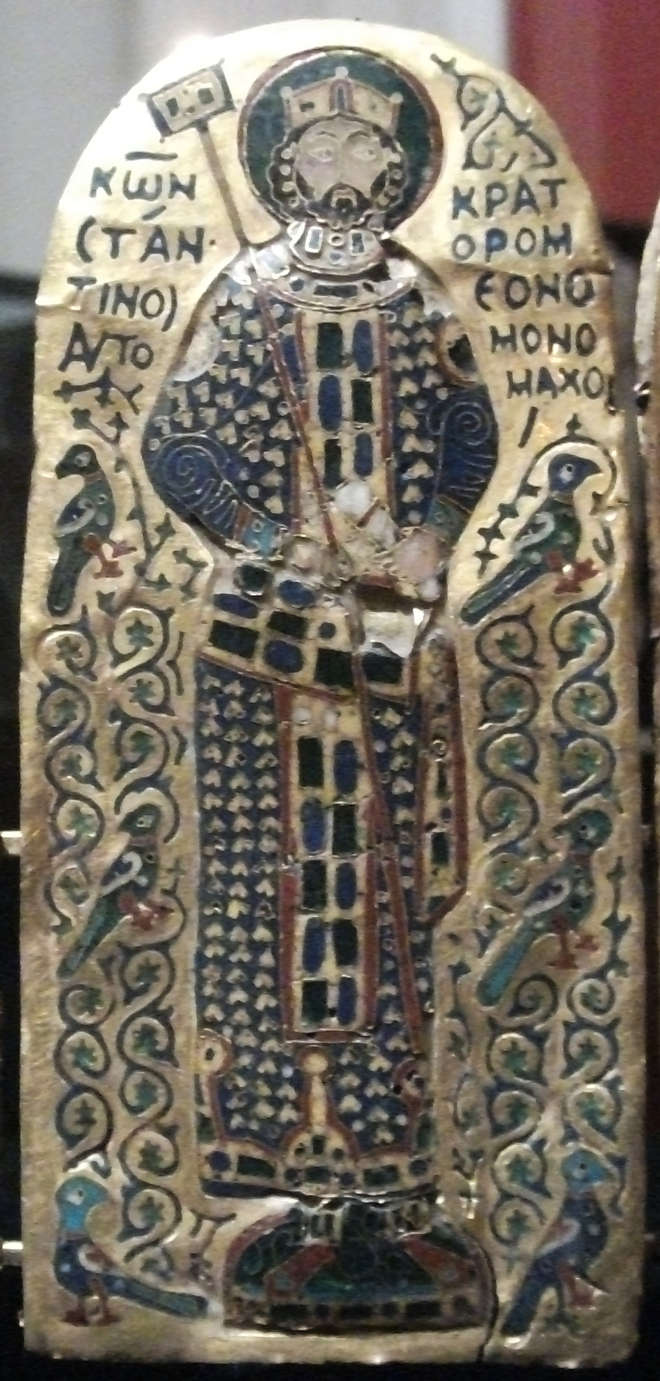 So-called Crown of Konstantinos IX Monomakhos, National Museum of Hungary, Budapest